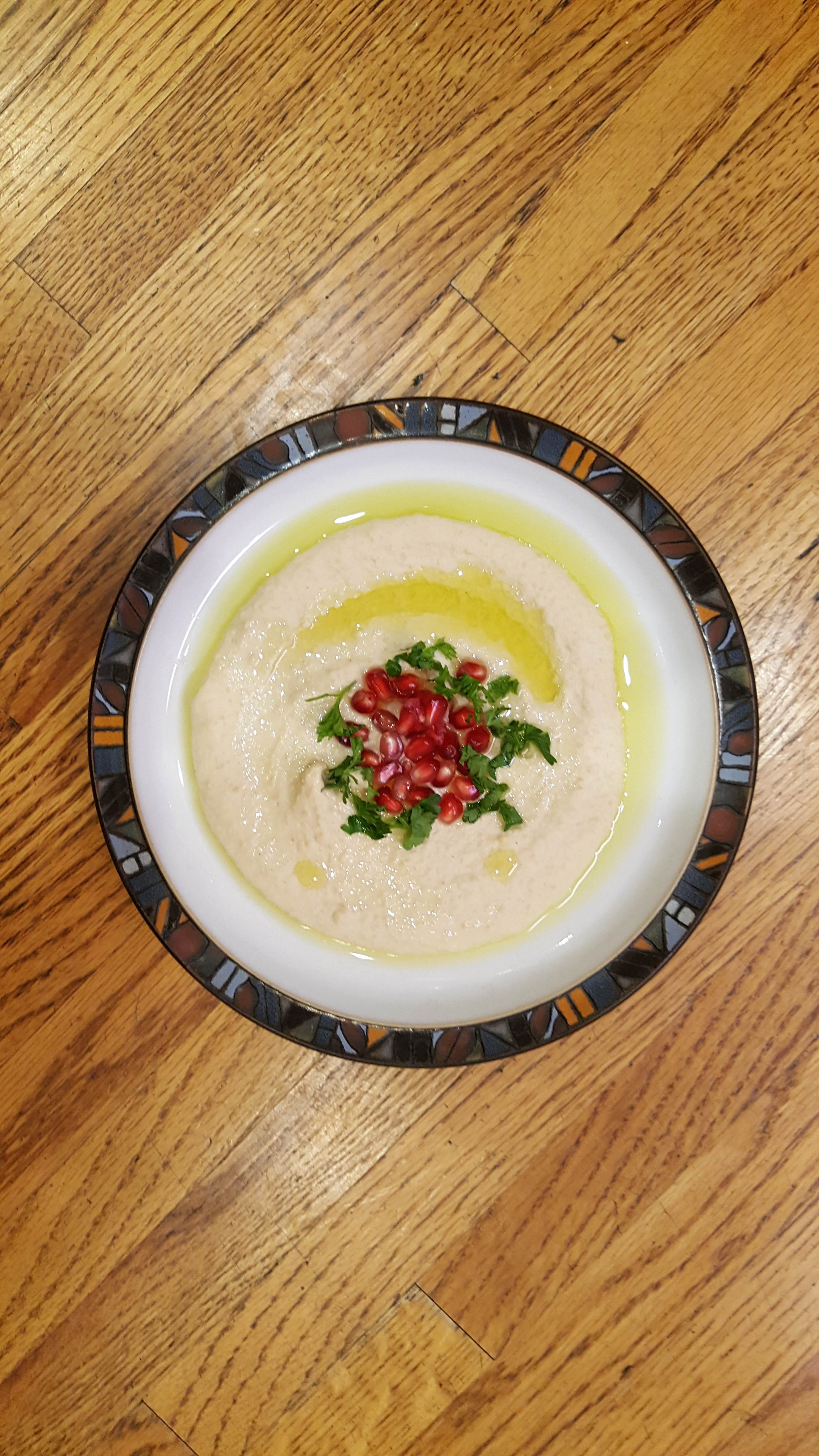 "Chick-Pea Sesame Dip" (Homos bi Tahini) with pomegranate seeds, following the recipe from Helen Corey's Food from Biblical Lands cookbook, page 4